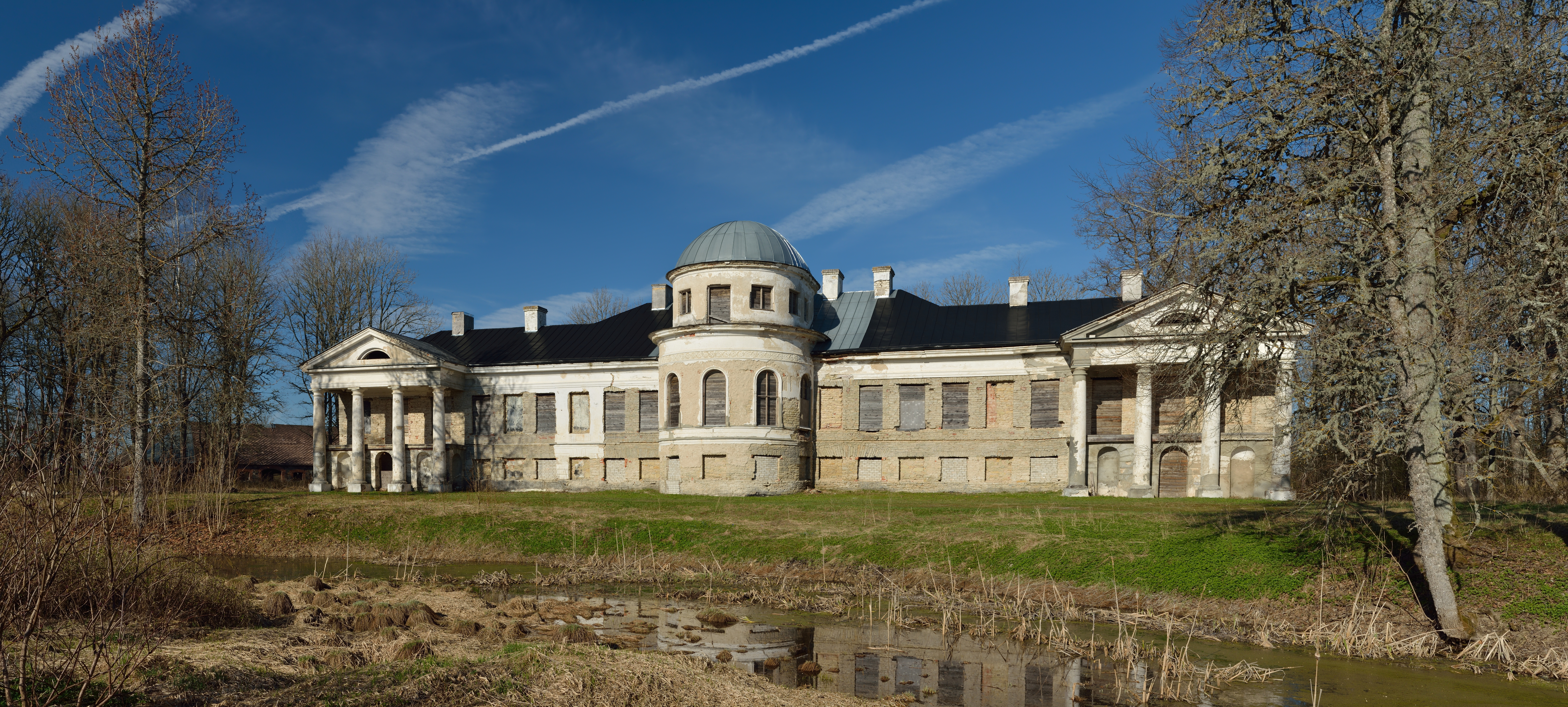 Hõreda manor main building